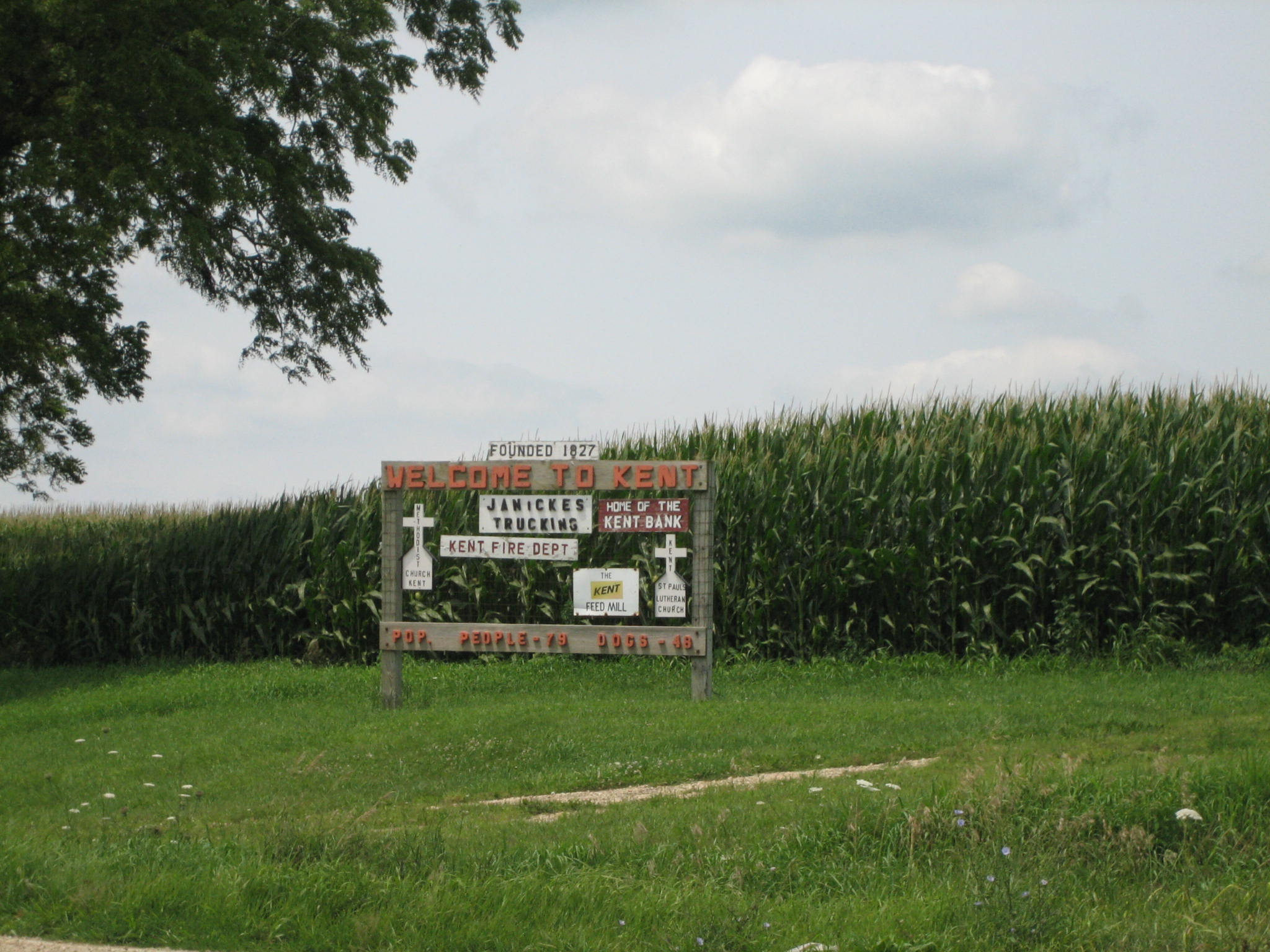 Sign upon entering the unincorporated community of Kent, Illinois, USA. Reads: "Pop. People - 79 Dogs - 46"